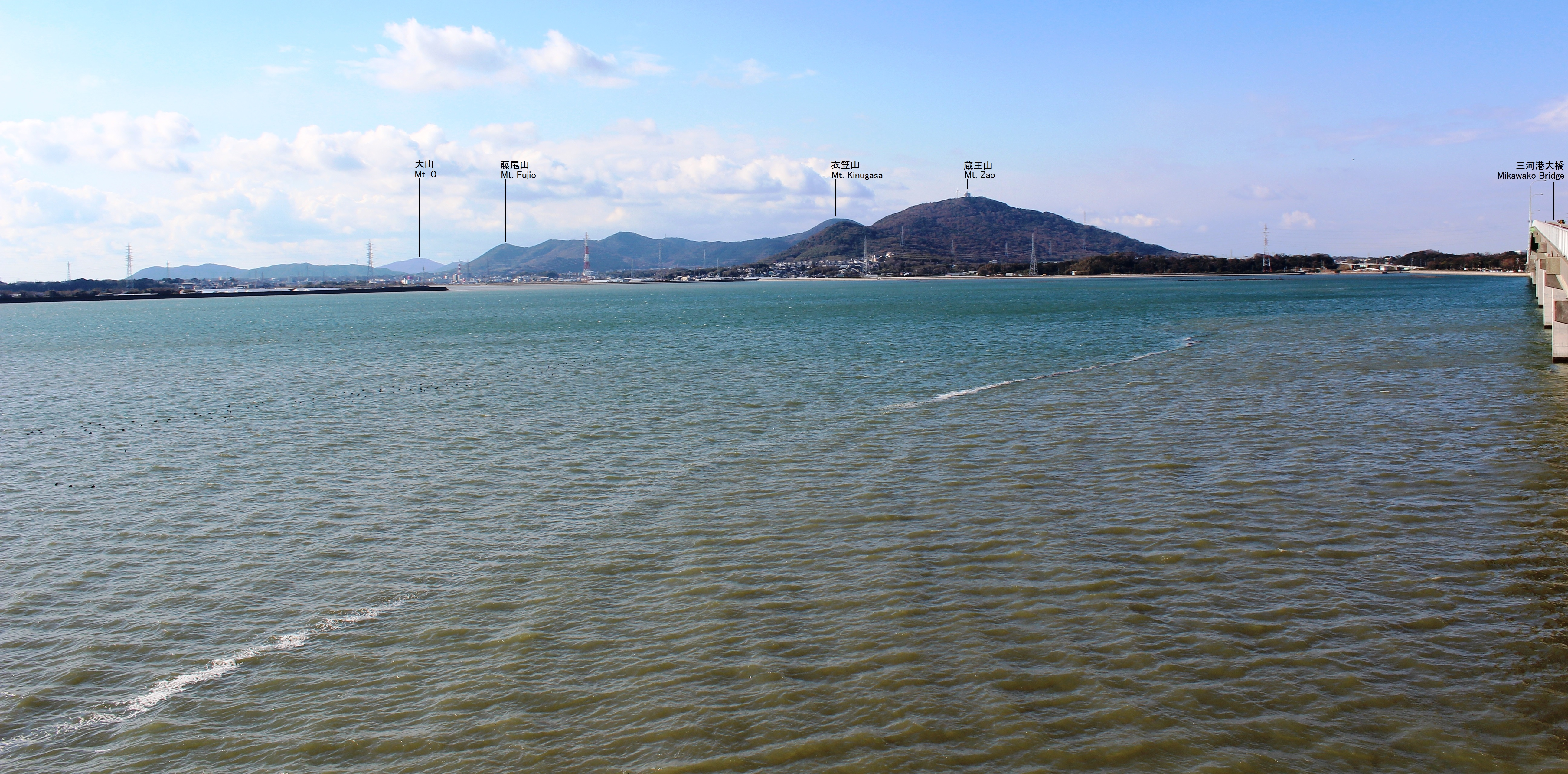 Shiokawa Higata and Mount Zao seen from Mikawa port bridge.